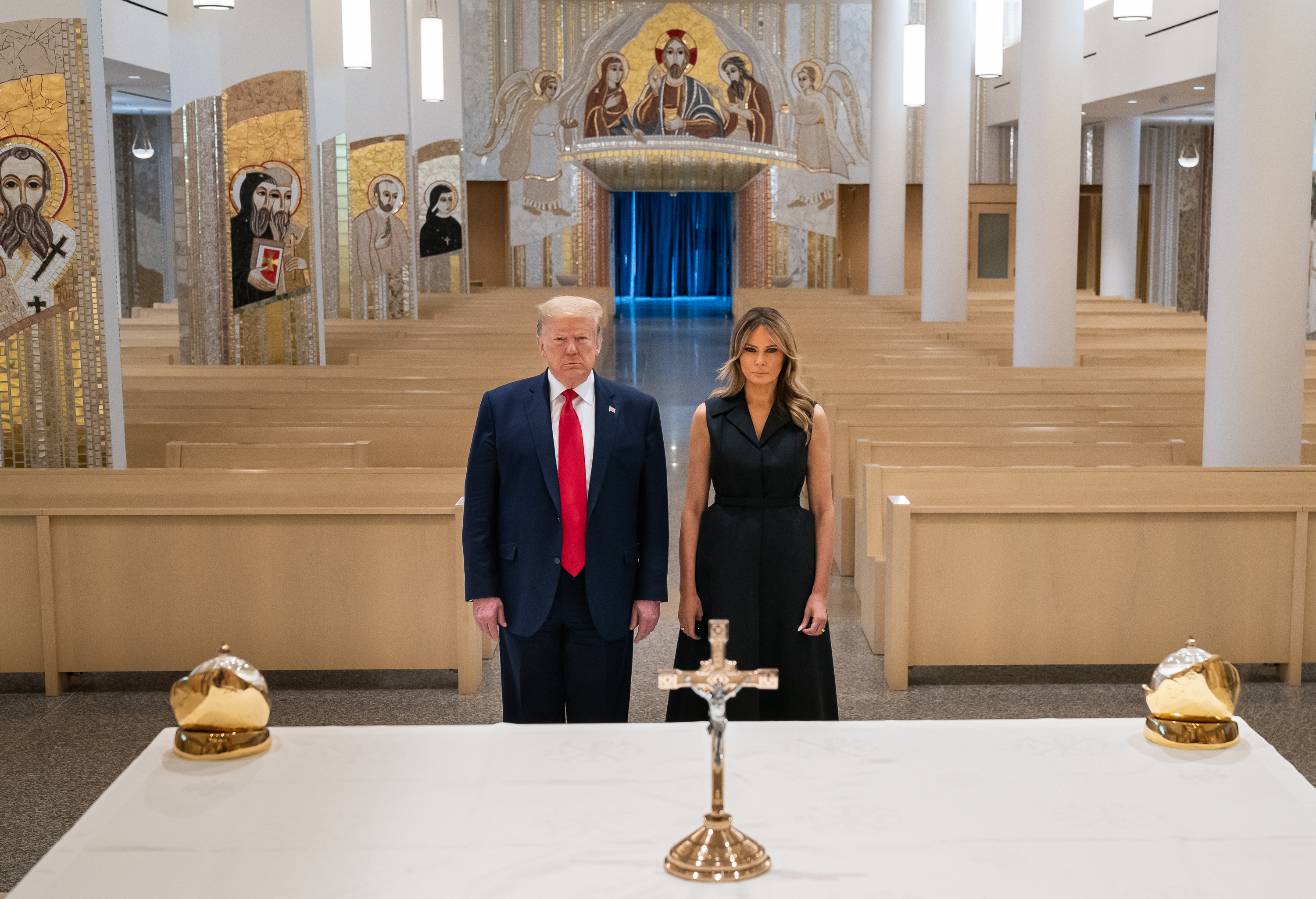 President Donald J. Trump and First Lady Melania Trump pray at the altar in the Redemptor Hominis Church Tuesday, June 2, 2020, at the Saint John Paul II National Shrine in Washington, D.C. (Official White House Photo by Andrea Hanks)